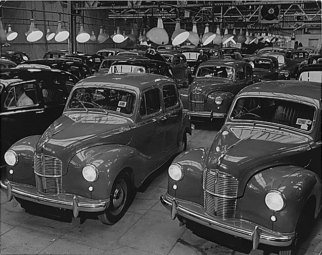 Photo taken at the Longbridge plant, Birmingham in about 1948 showing Austin A40s.